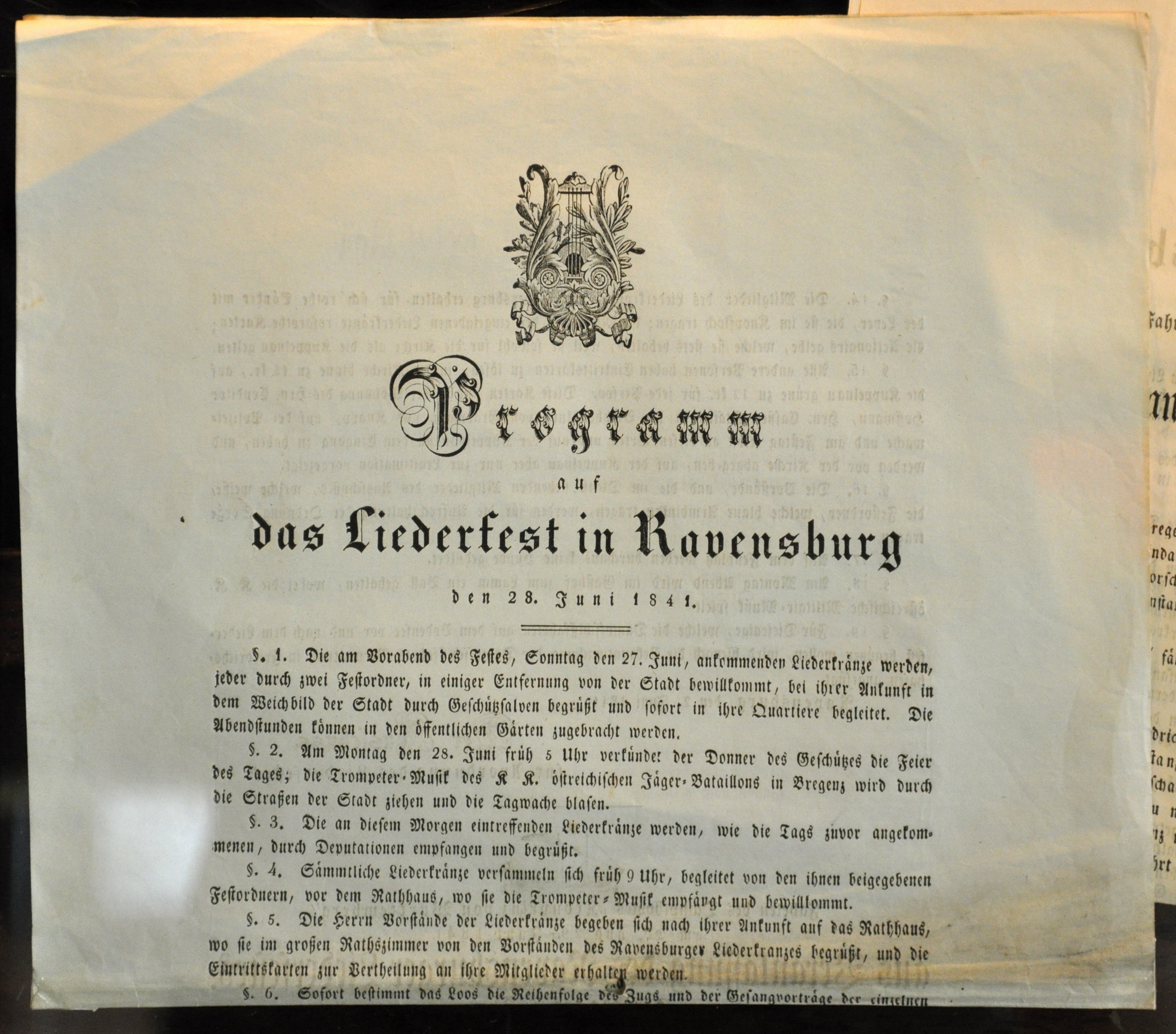 Programm auf das Liederfest 1841, Ravensburg; Ausschnitt; Museum Humpis-Quartier (Ravensburg), Leihgabe Oratorienchor Liederkranz e. V. Ravensburg Humpis-Quartier Native nameMuseum Humpis-QuartierLocationRavensburg, GermanyCoordinates47° 46′ 49.8″ N, 9° 36′ 57.24″ E Established2009Web page control : Q1637298 VIAF: 128828875 LCCN: nb2007020847 GND: 4565586-8 WorldCat institution QS:P195,Q1637298